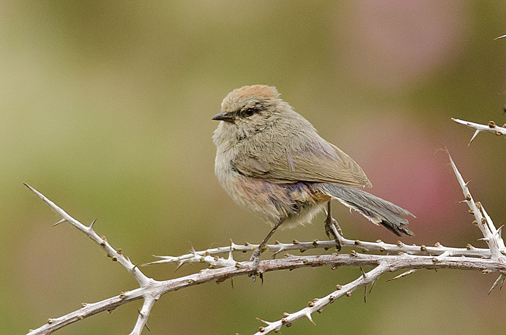 White-browed Tit Warbler female at Panamic, Nubra Valley, Ladakh, India